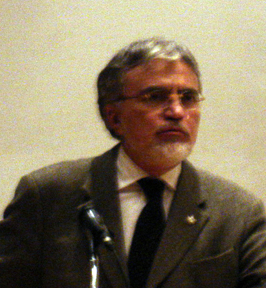 Picture of Fariborz Sahba